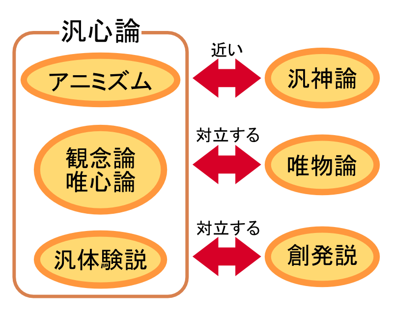 Relationships between panpsychism, animism and pantheism in Japanese language. This is png file because Japanese fonts do not work well with commons png renderer.